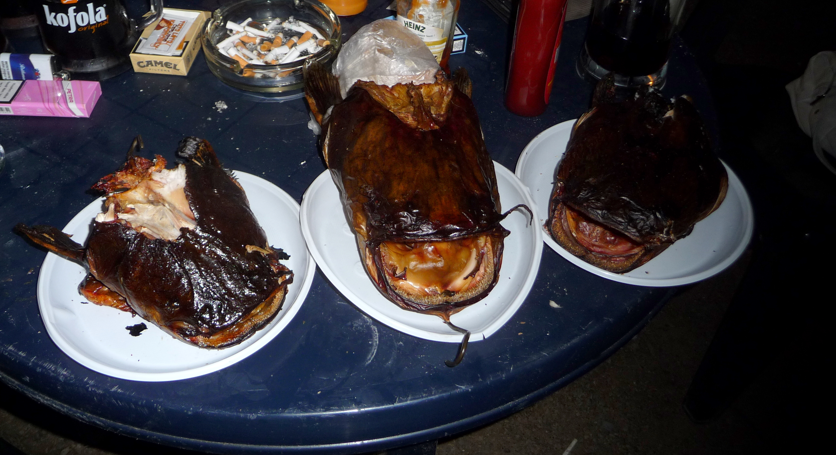 Three smoked heads of Wels catfishes (Silurus glanis)